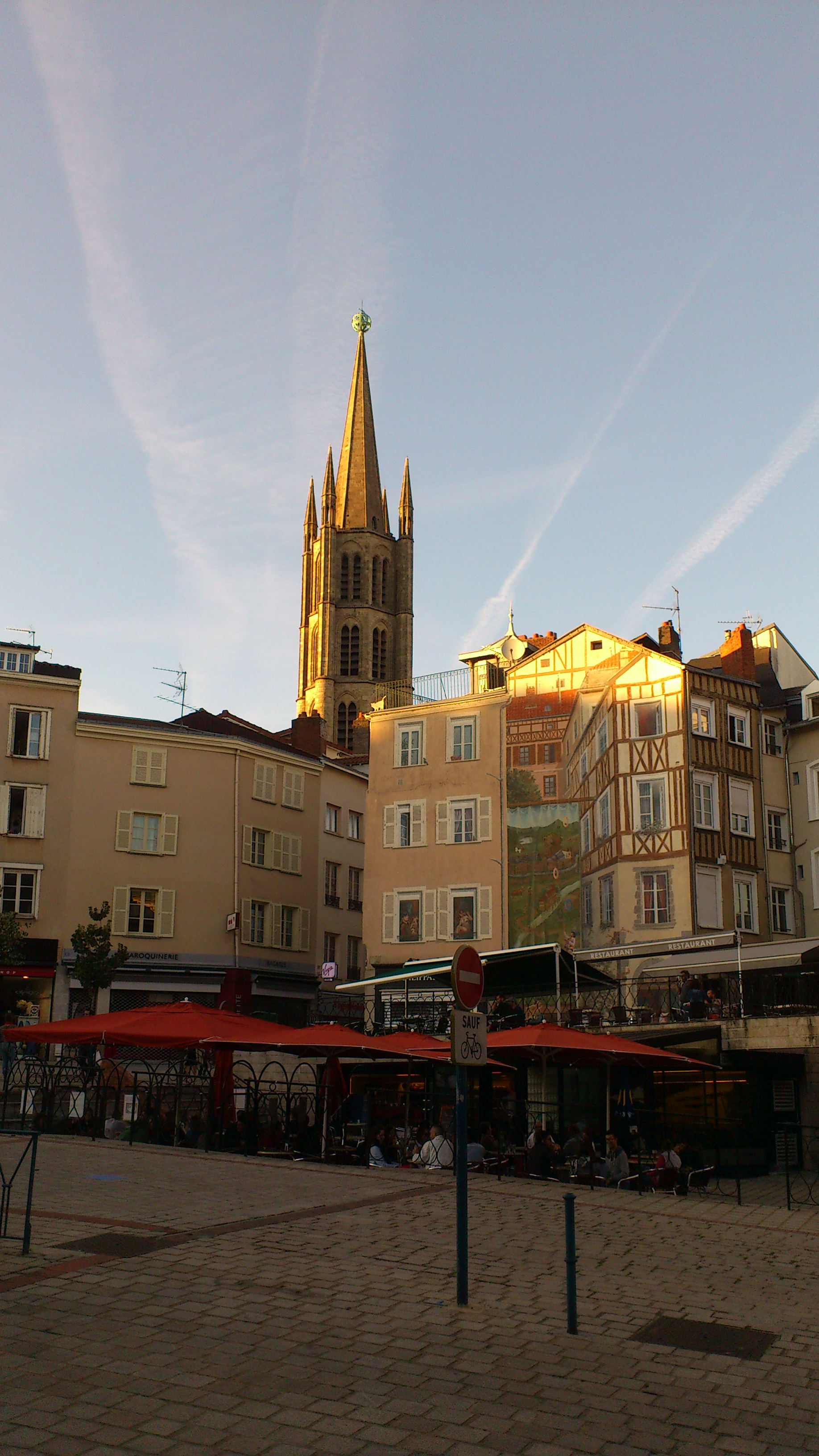 "Place de la Motte" and Saint-Michel-des-Lions church, Limoges, France